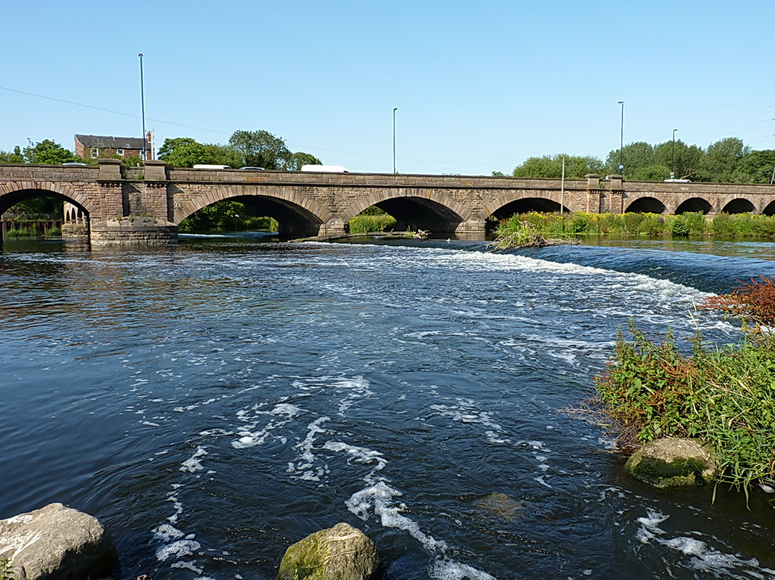 Burton weir